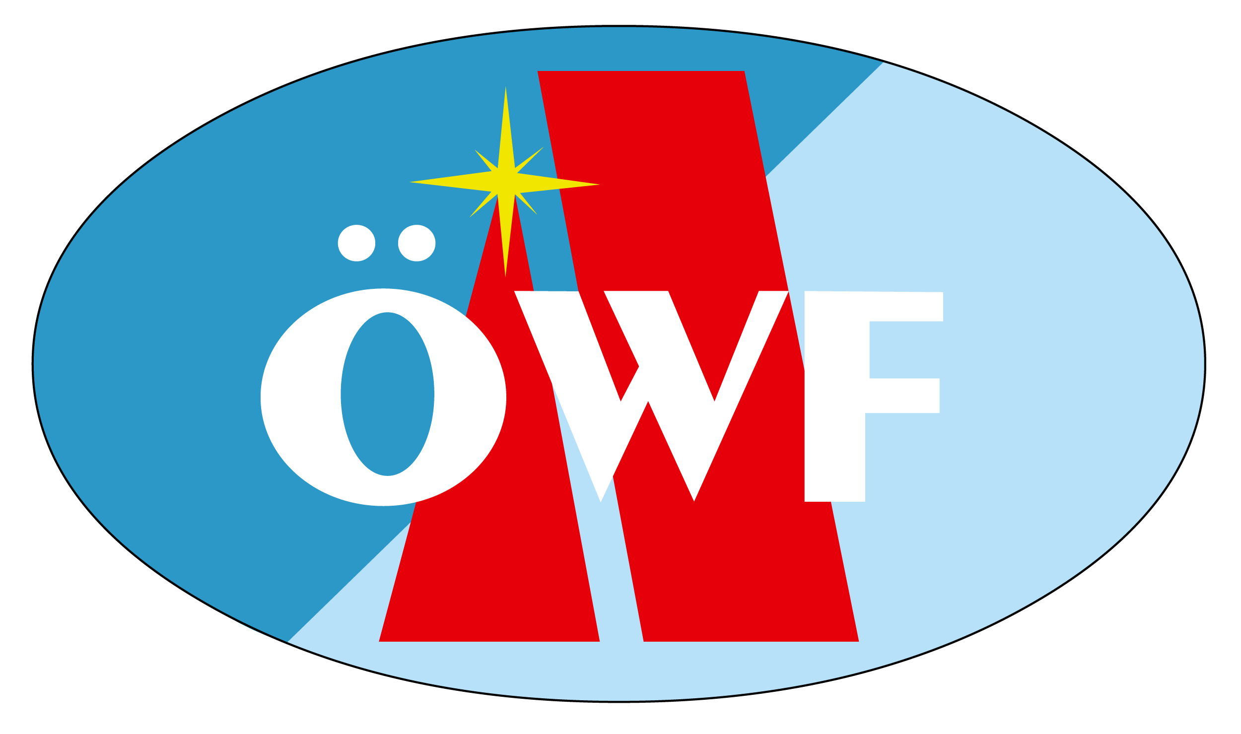 Official logo of the Austrian Space Forum (OeWF) a a citizen science organization for space professionals & space enthusiasts based in Austria.